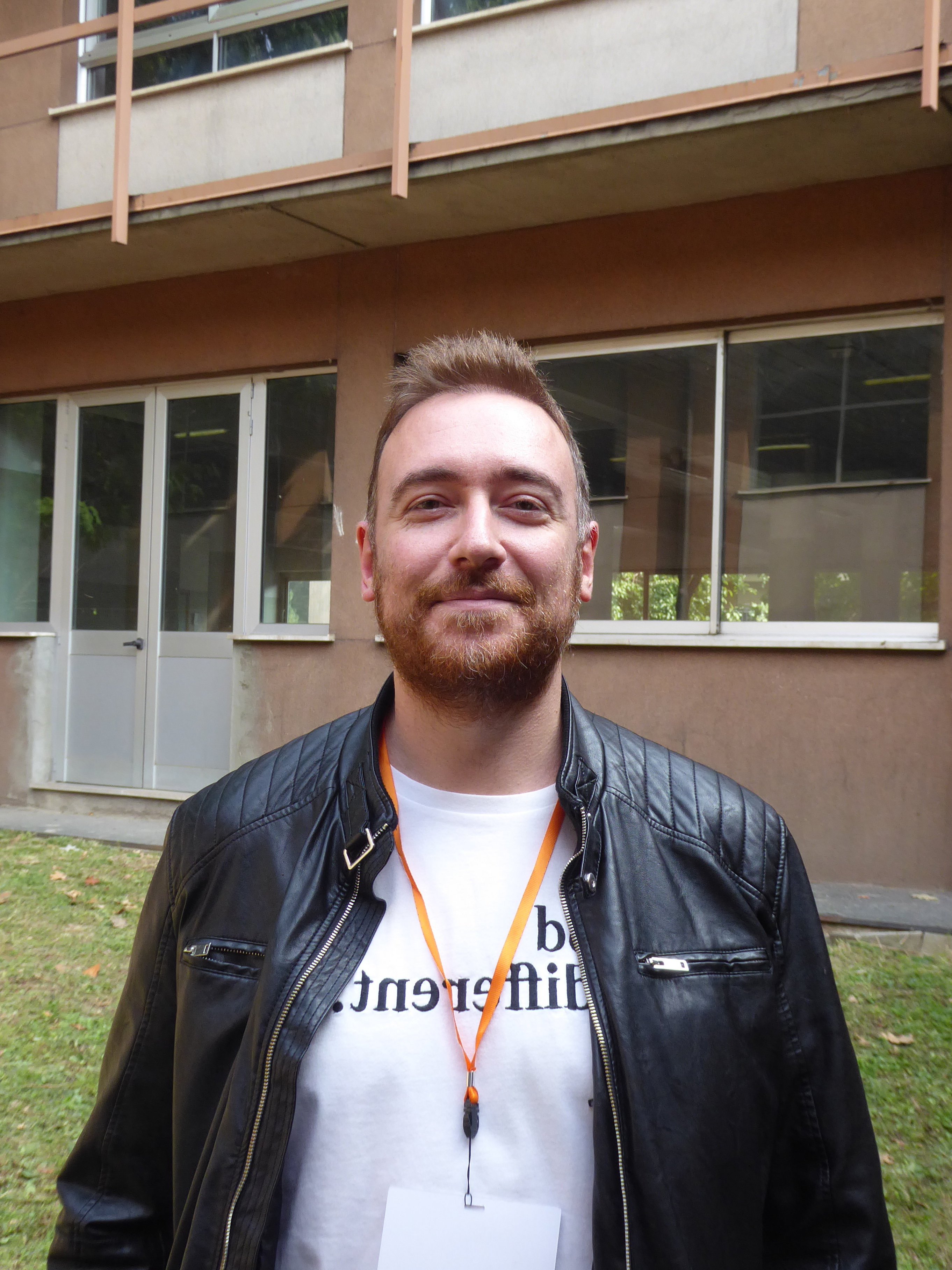 Leonardo Patrignani at Stranimondi 2019 in Milan